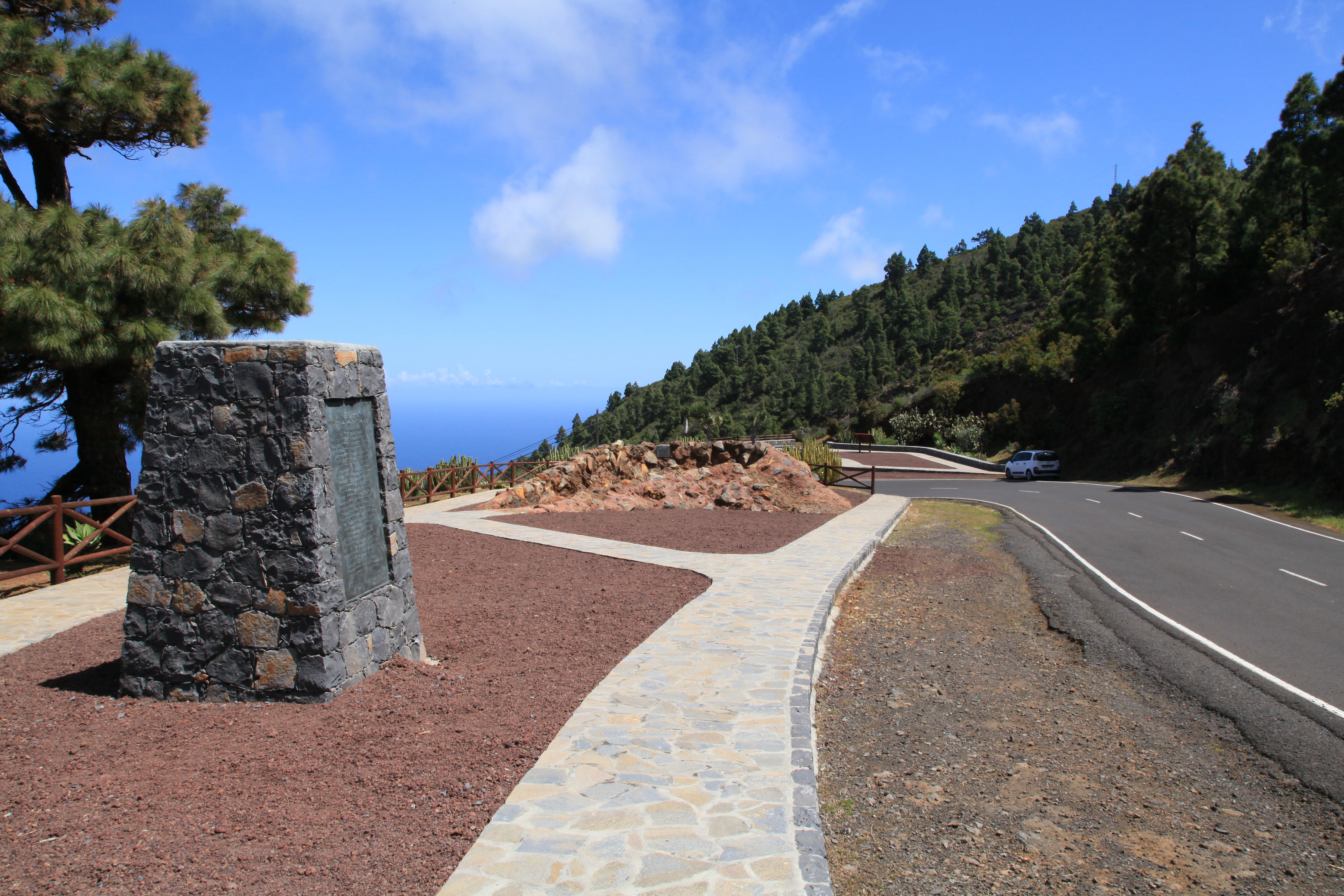 Mirador de Tanausú at Vía Santo Domingo (LP-112) in Garafía, La Palma, Canary Island, Spain